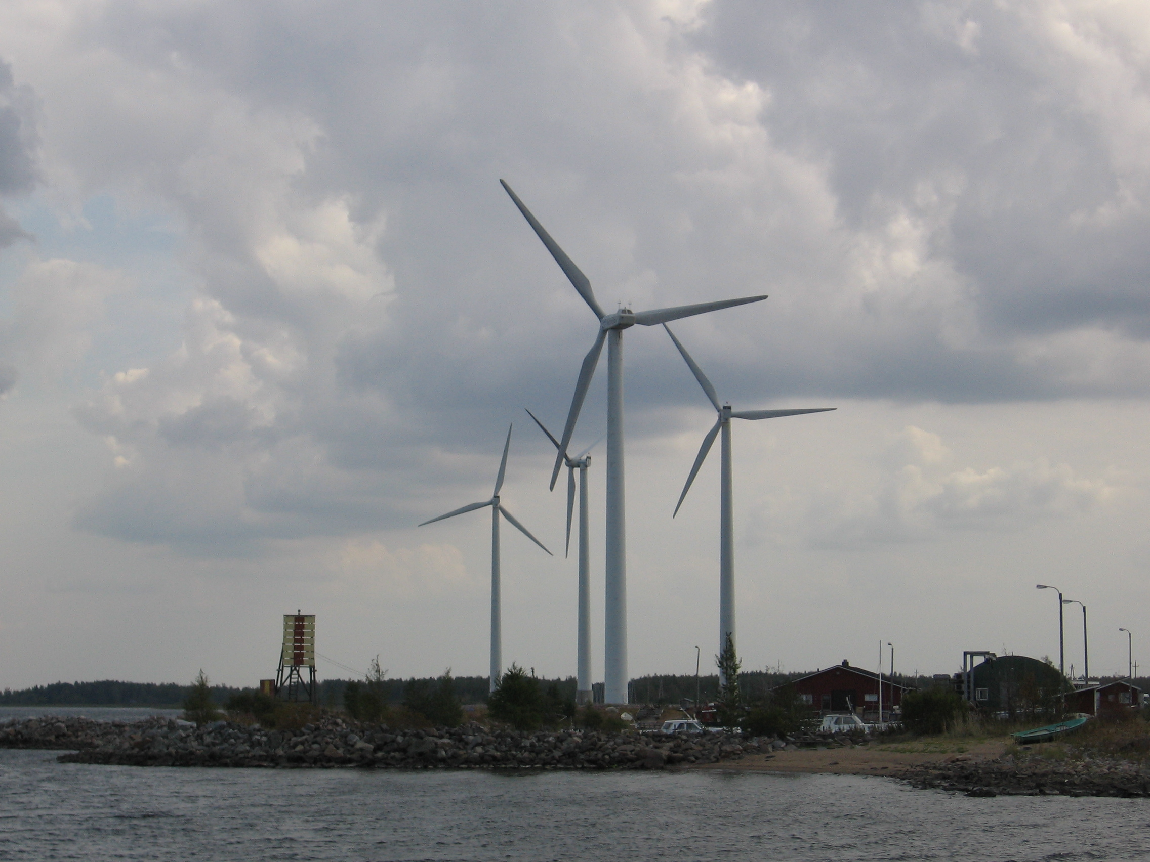 Wind generators from Riutunkari, Oulunsalo, Finland